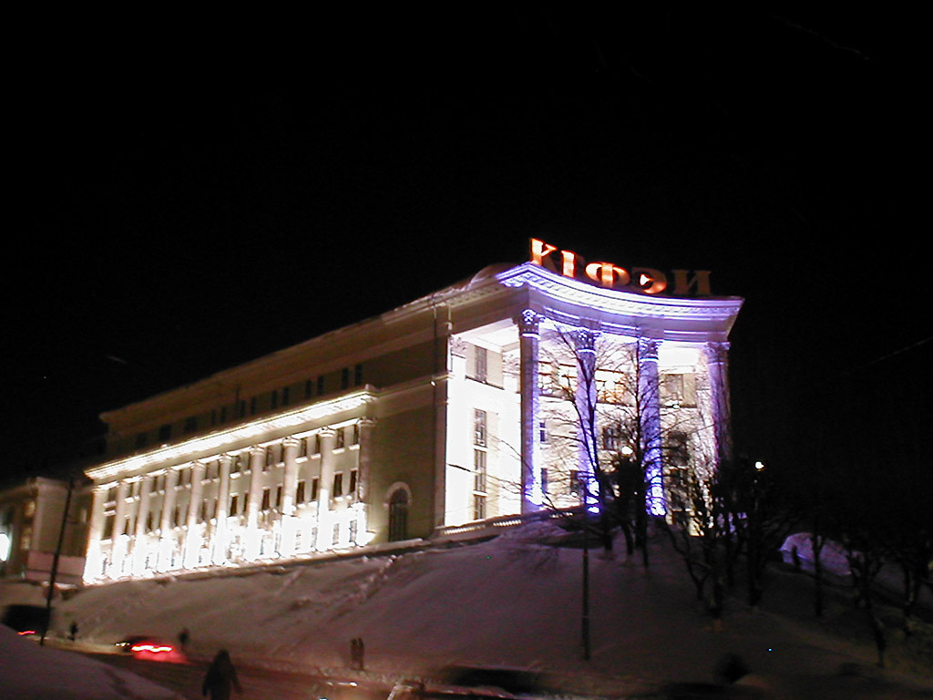 KSFEI building in Kazan (at night)